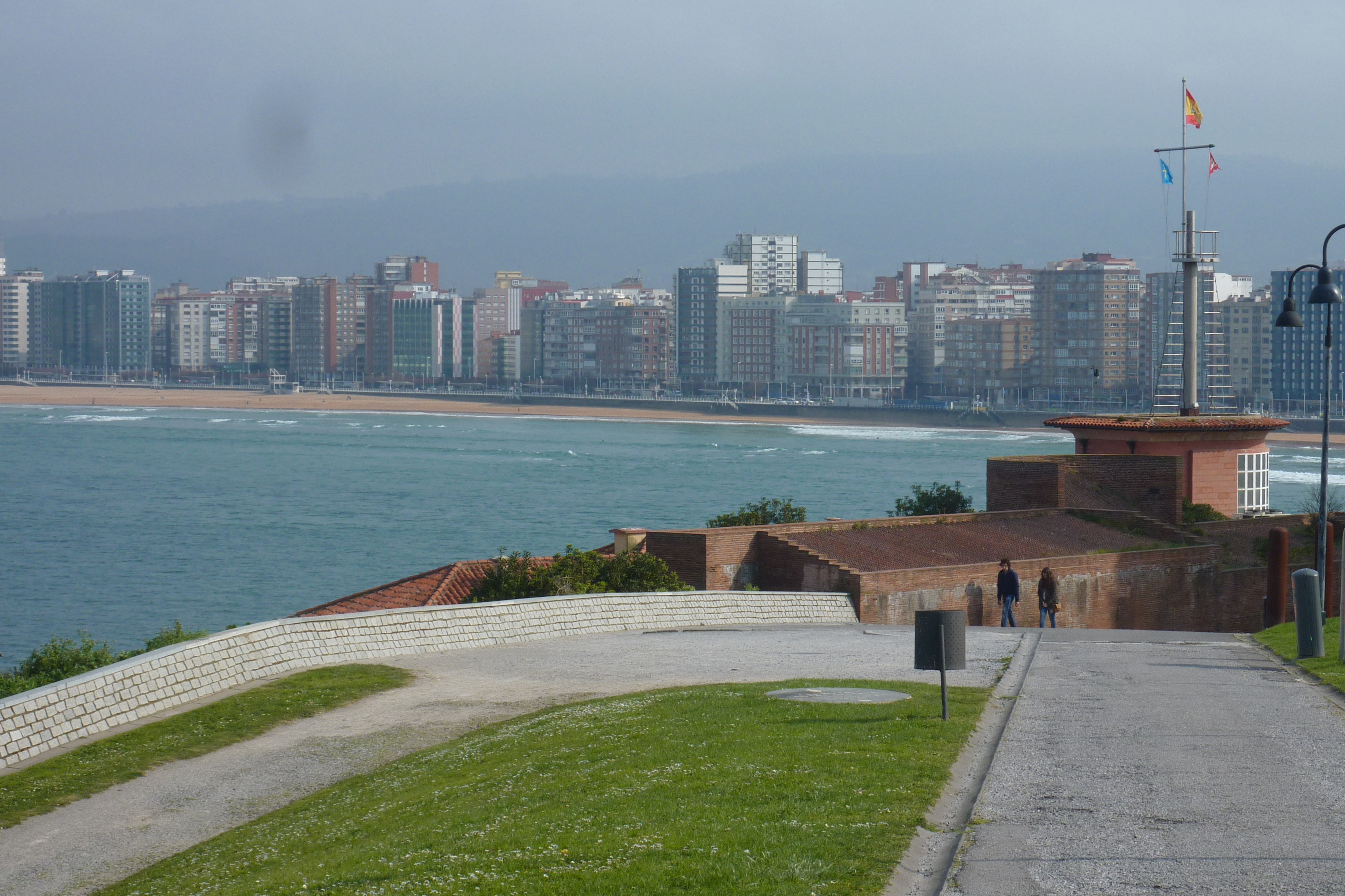 Gijon - looking across the bay